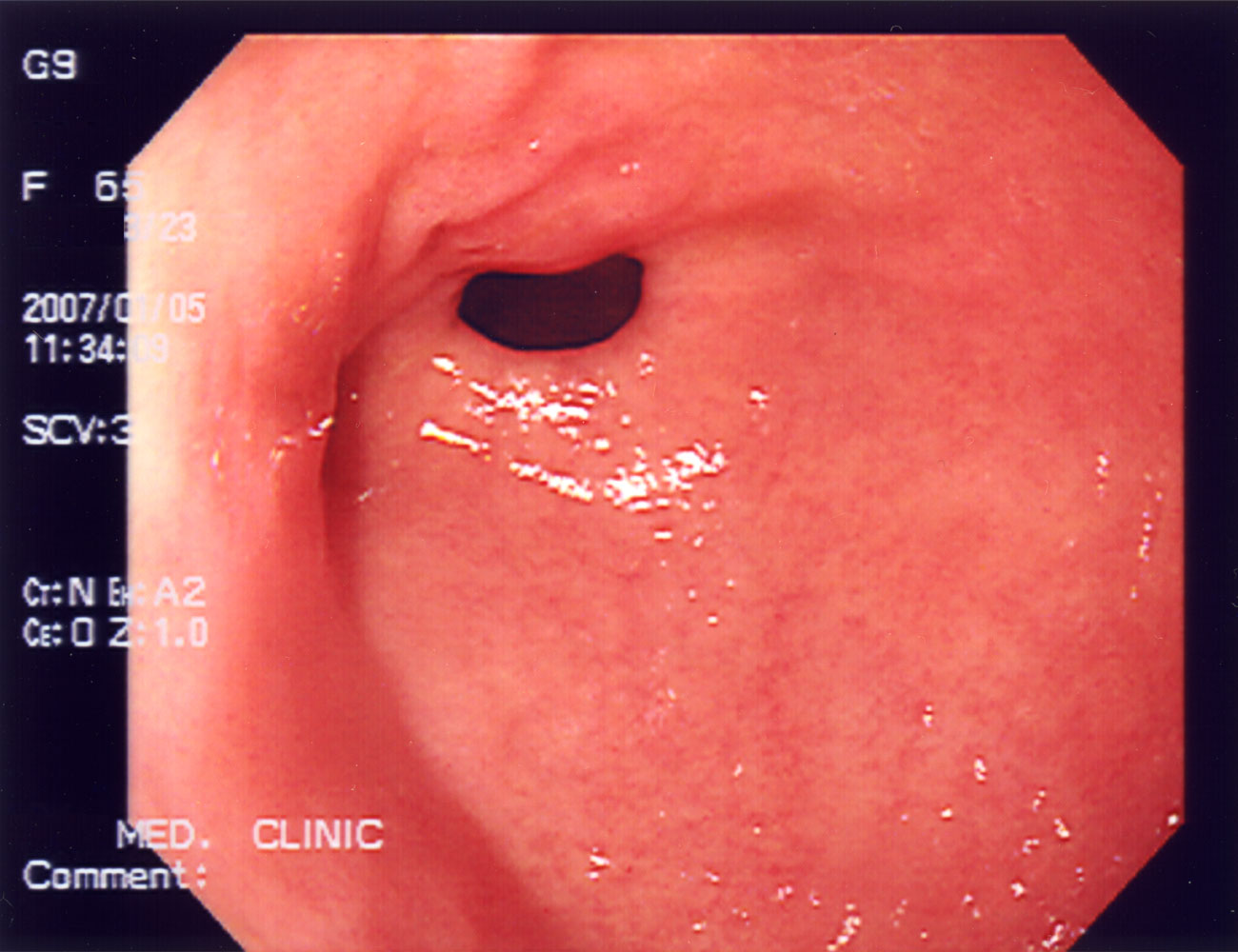 endoscopy image of normal stomach of a healthy 65-years old woman. (pylorus) Permission of patient to publish this image was obtained.